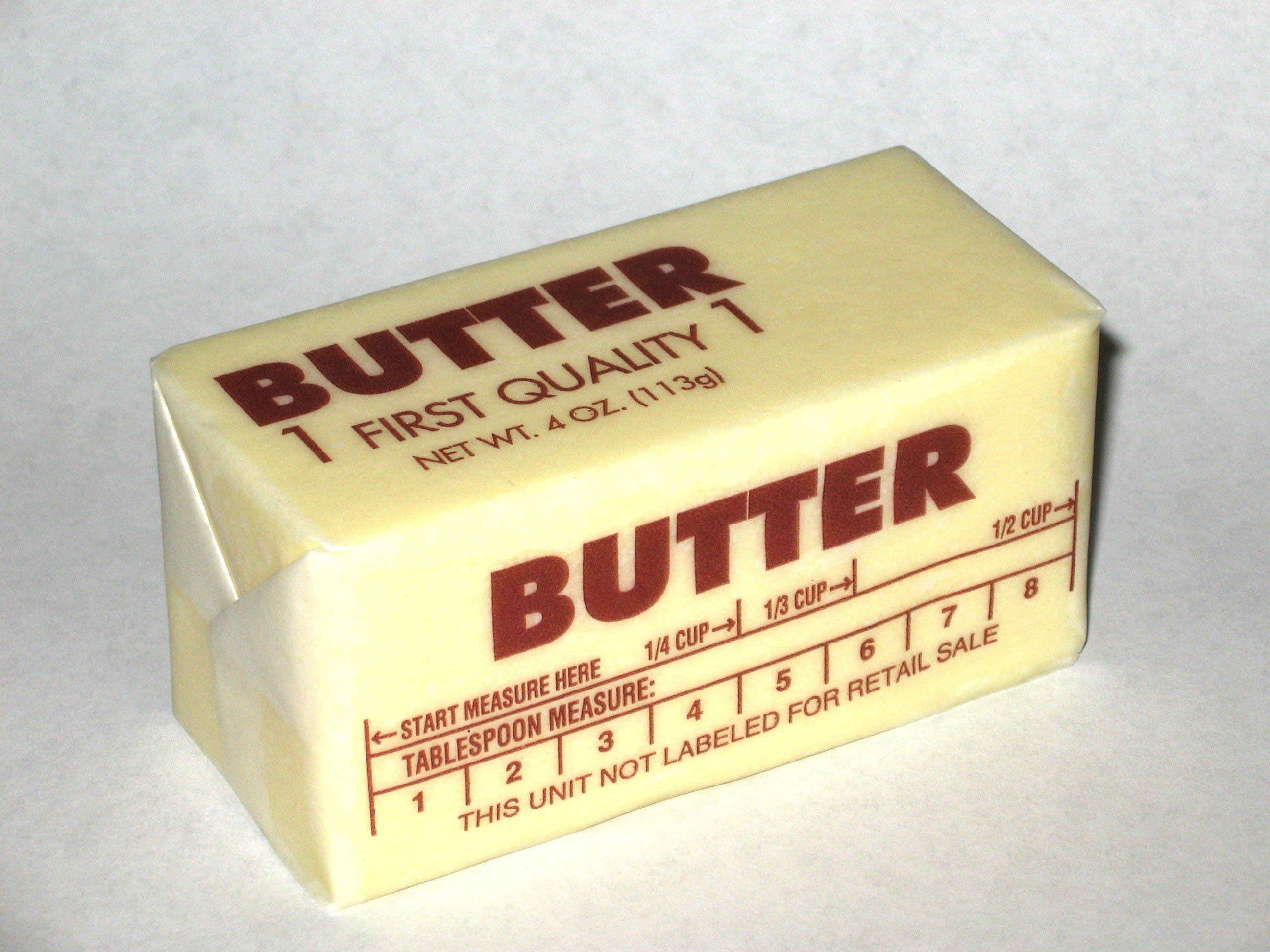 A stick of western pack butter.